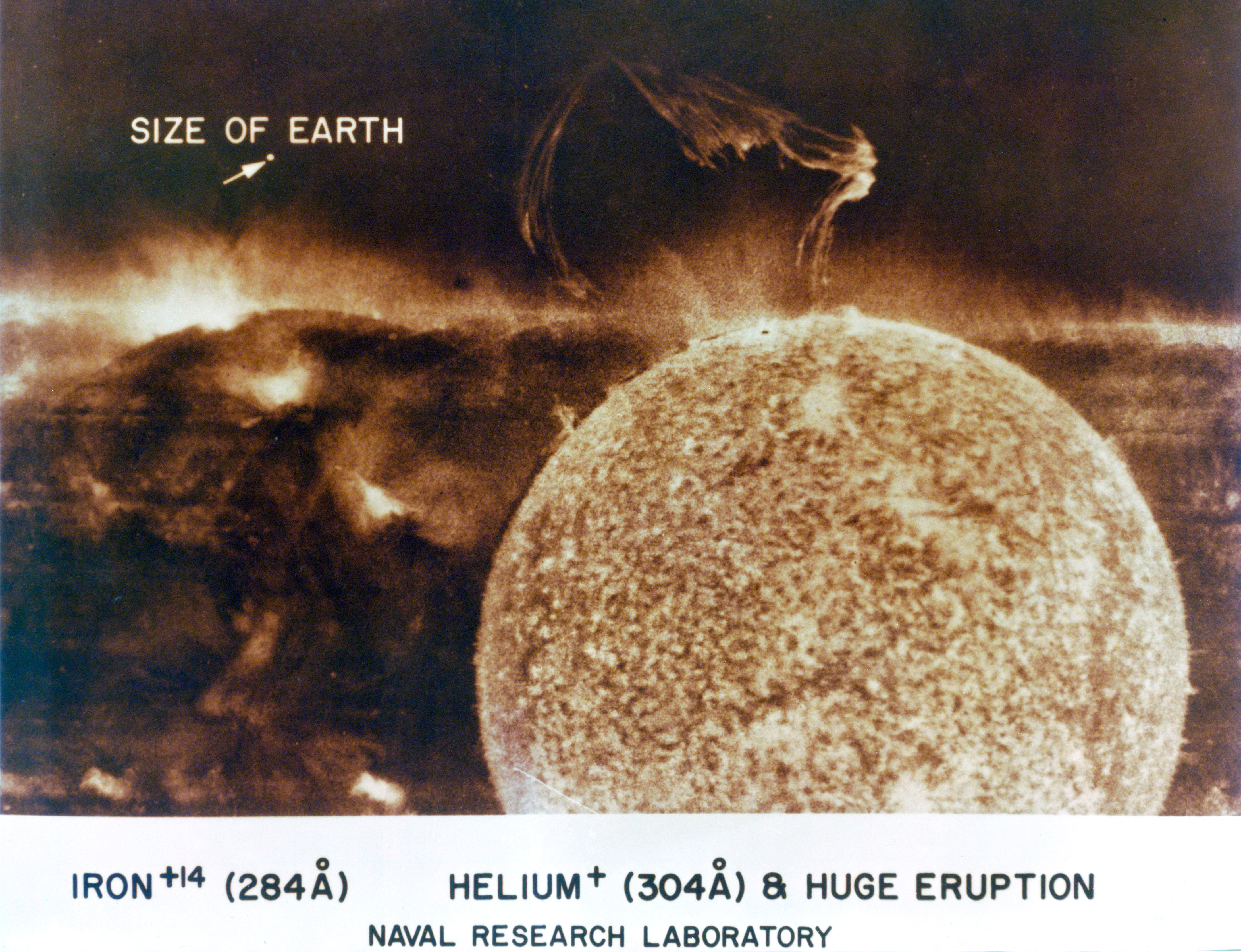 caption: S74-15583 (July 1973) --- A huge solar eruption can be seen in this Spectroheliogram obtained during the Skylab 3 mission by the Extreme Ultraviolet Spectrograph/Spectroheliograph SO82A Experiment aboard the Skylab space station in Earth orbit. SO82 is one of the Apollo Telescope Mount experiments. The SO82 A instrument covers the wavelength region from 150-650 angstroms (EUV regions). The magnitude of the eruption can be visualized by comparing it with the small white dot that represents the size of Earth. This photograph reveals for the first time that helium erupting from the sun can stay together to altitudes of up to 500,000 miles. After being ejected from the sun, the gas clouds seem to have come to a standstill, as though blocked by an unseen wall. Some materials appear to have been directed back toward the sun as a rain, distinguished by fine threads. At present it is a challenge to explain this mystery--what forces expelled these huge clouds, then blocked its further progress, yet allowed the cloud to maintain its threads. Both magnetic fields and gravity must play a part, but these curious forms seem to defy explanation based on magnetic and gravitational fields alone. The EUV spectroheliograph was designed and constructed by the U.S. Naval Research Laboratory and the Ball Brothers Research Corporation under the direction of Dr. R. Tousey, the principal investigator for this NASA experiment. On the left may be seen the sun's image in emission from iron atoms which have lost 14 electrons by collision in the sun's million-degree coronal plasma gas.